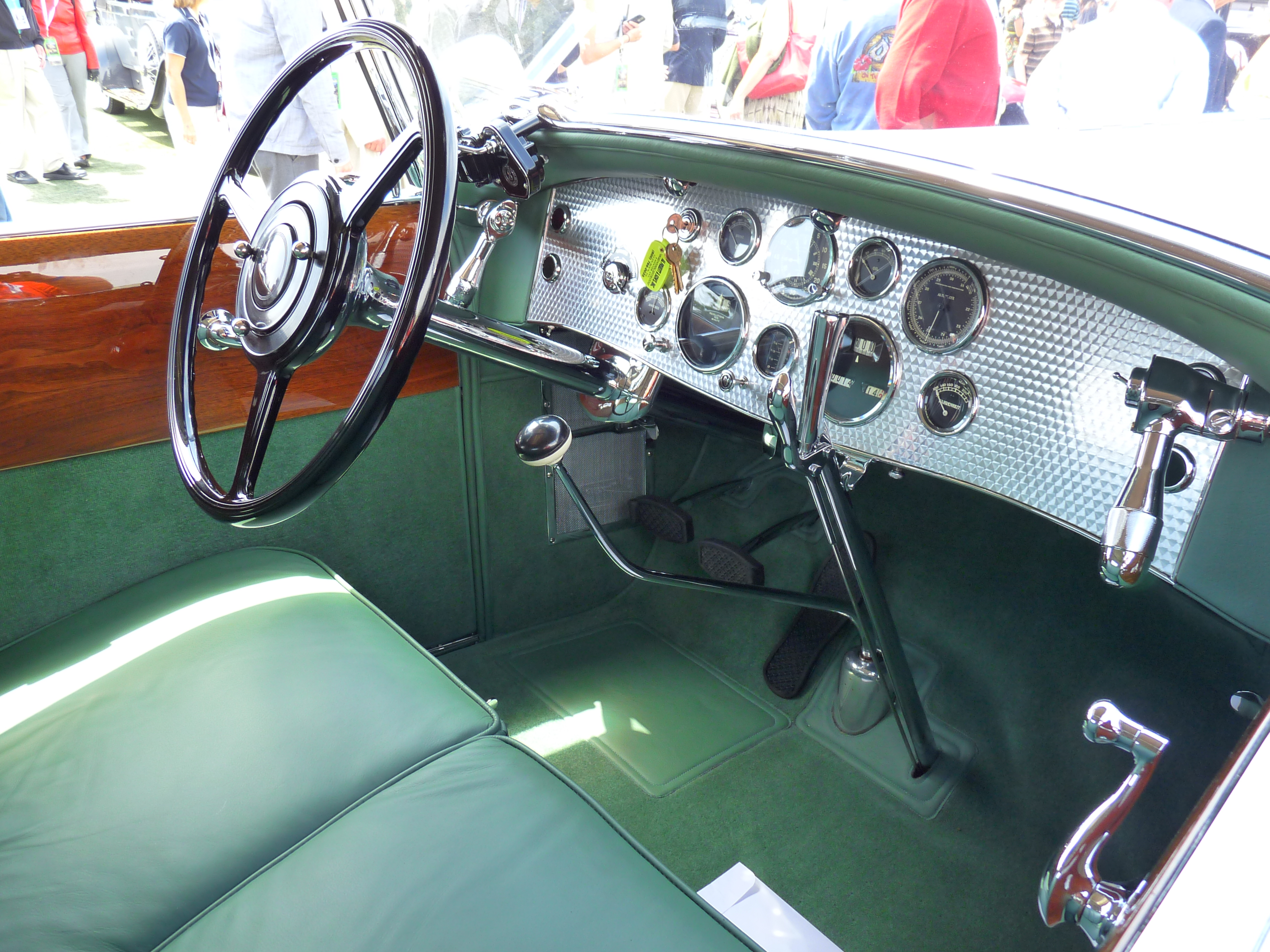 1930 Duesenberg J Hibbard & Darrin Victoria convertible